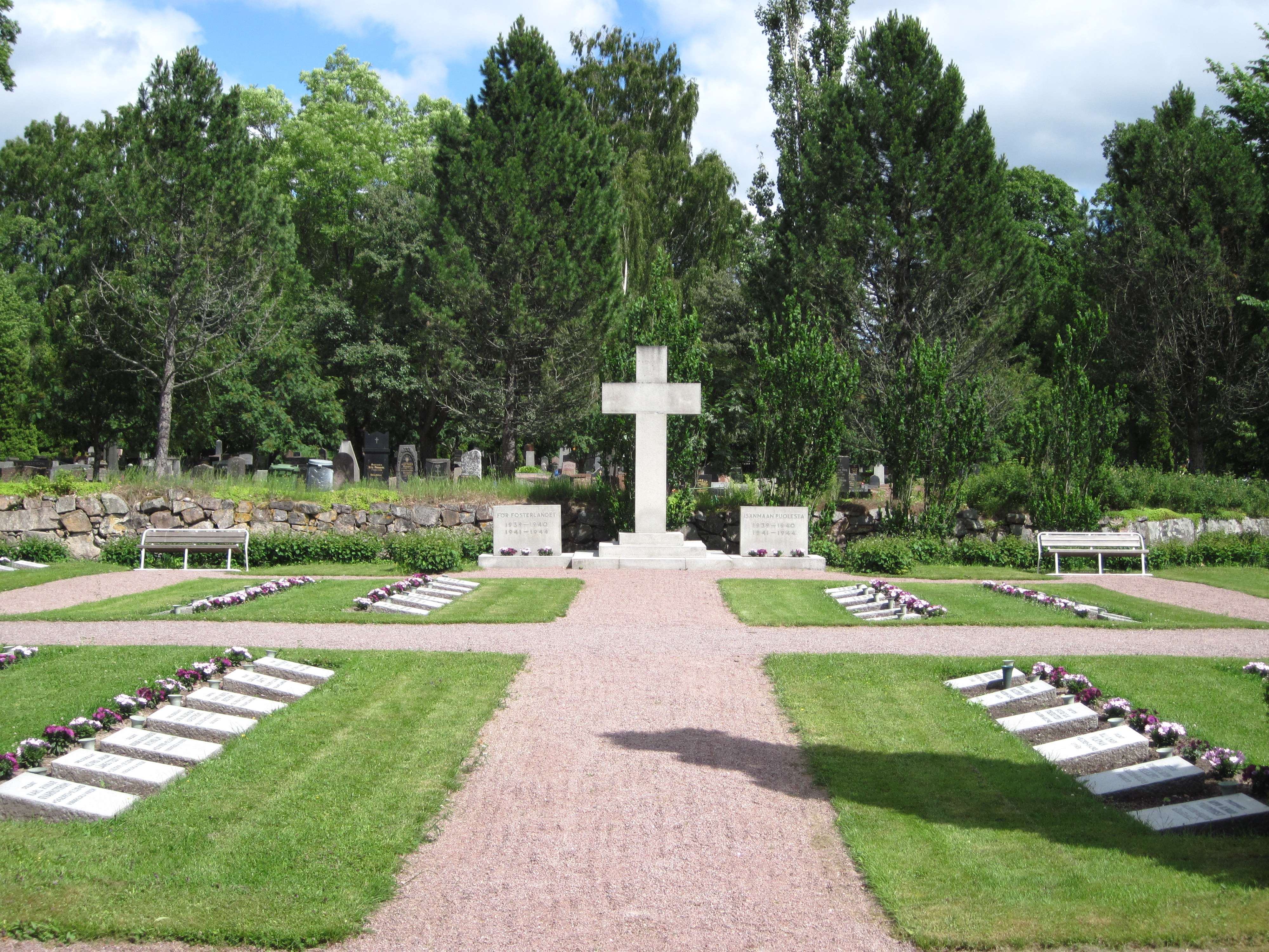 Military cemetary at church in Siuntio, Finland